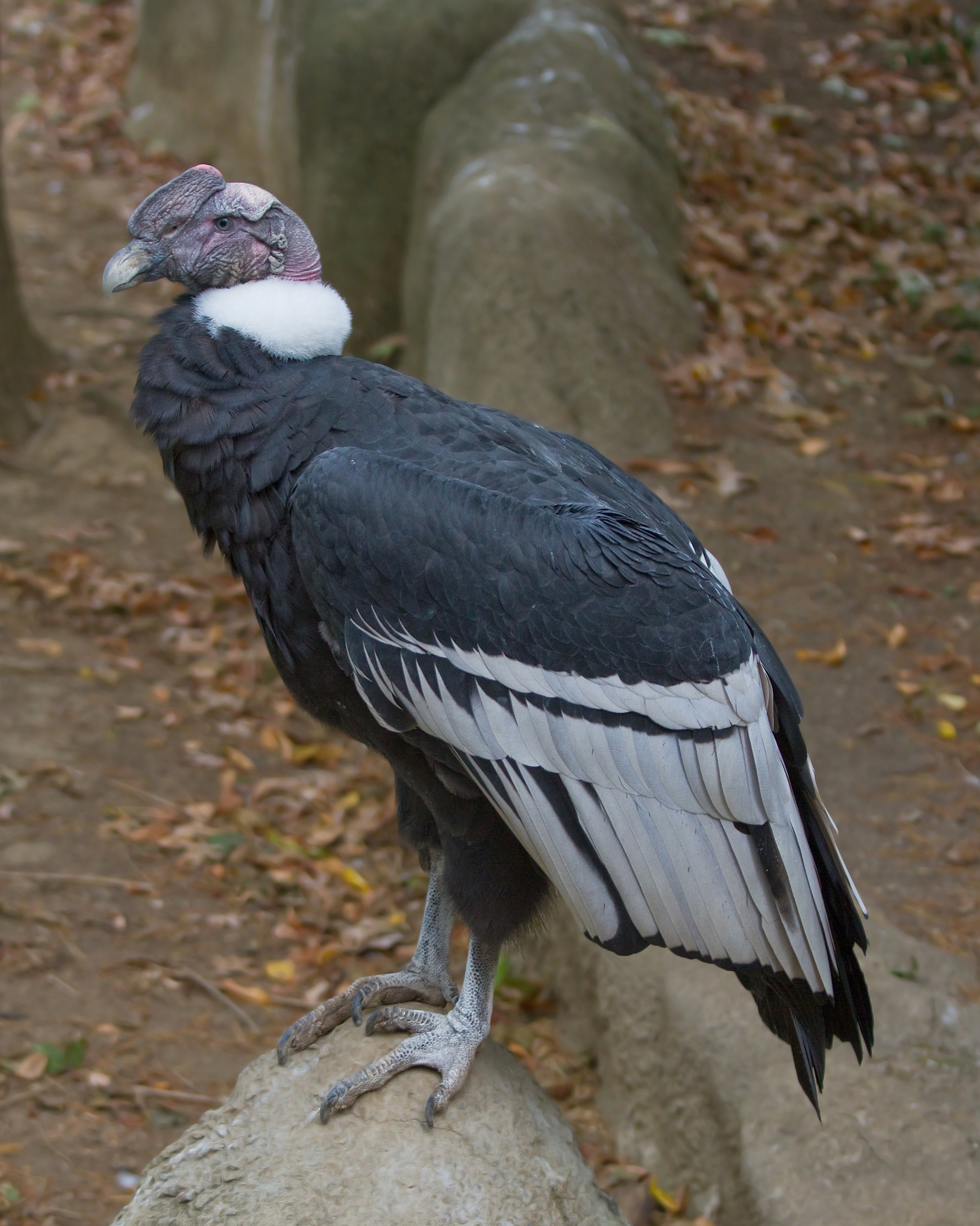 Male Andean Condor - taken at the Cincinnati Zoo.